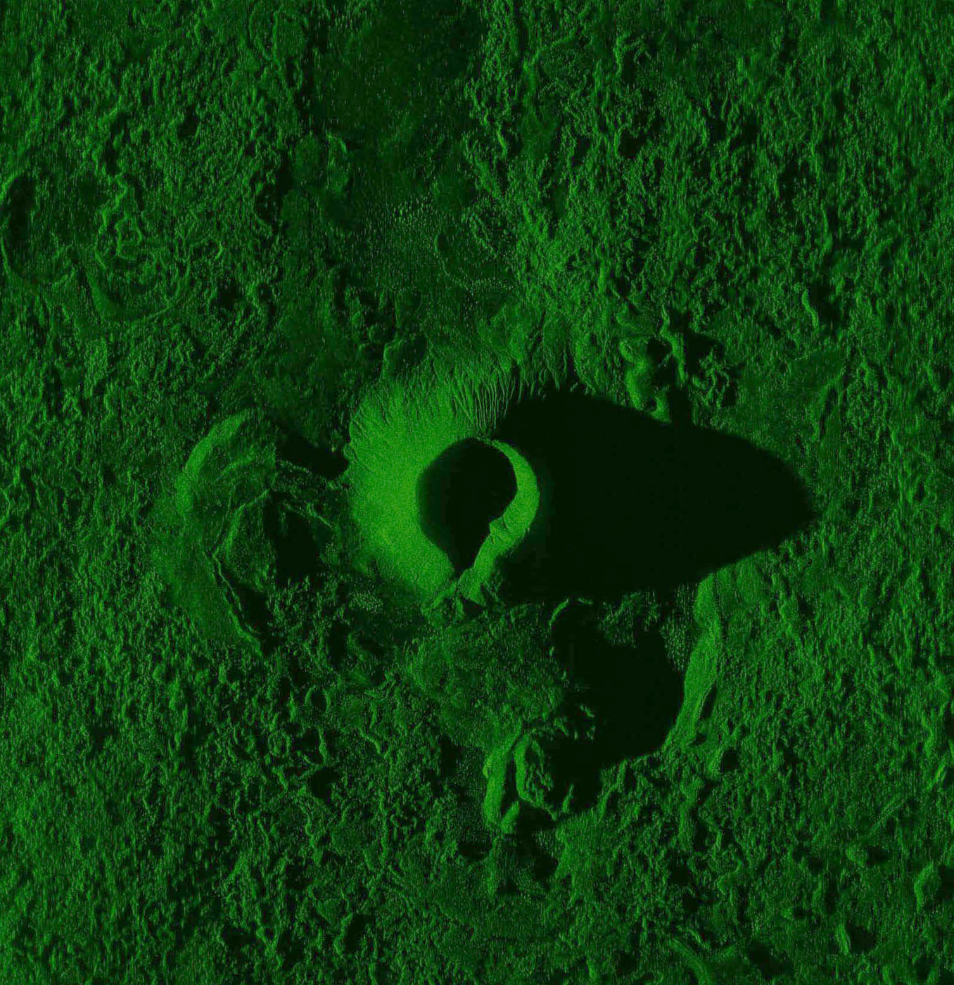 This image of an extinct volcano crater in southern California was taken during system level verification test flights of the Block 40 Global Hawk Multi-Platform Radar Technology Insertion Program sensor on the Proteus surrogate aircraft. It shows the radar's ability to show terrain features in high detail. Why does a radar image shows a shade ??